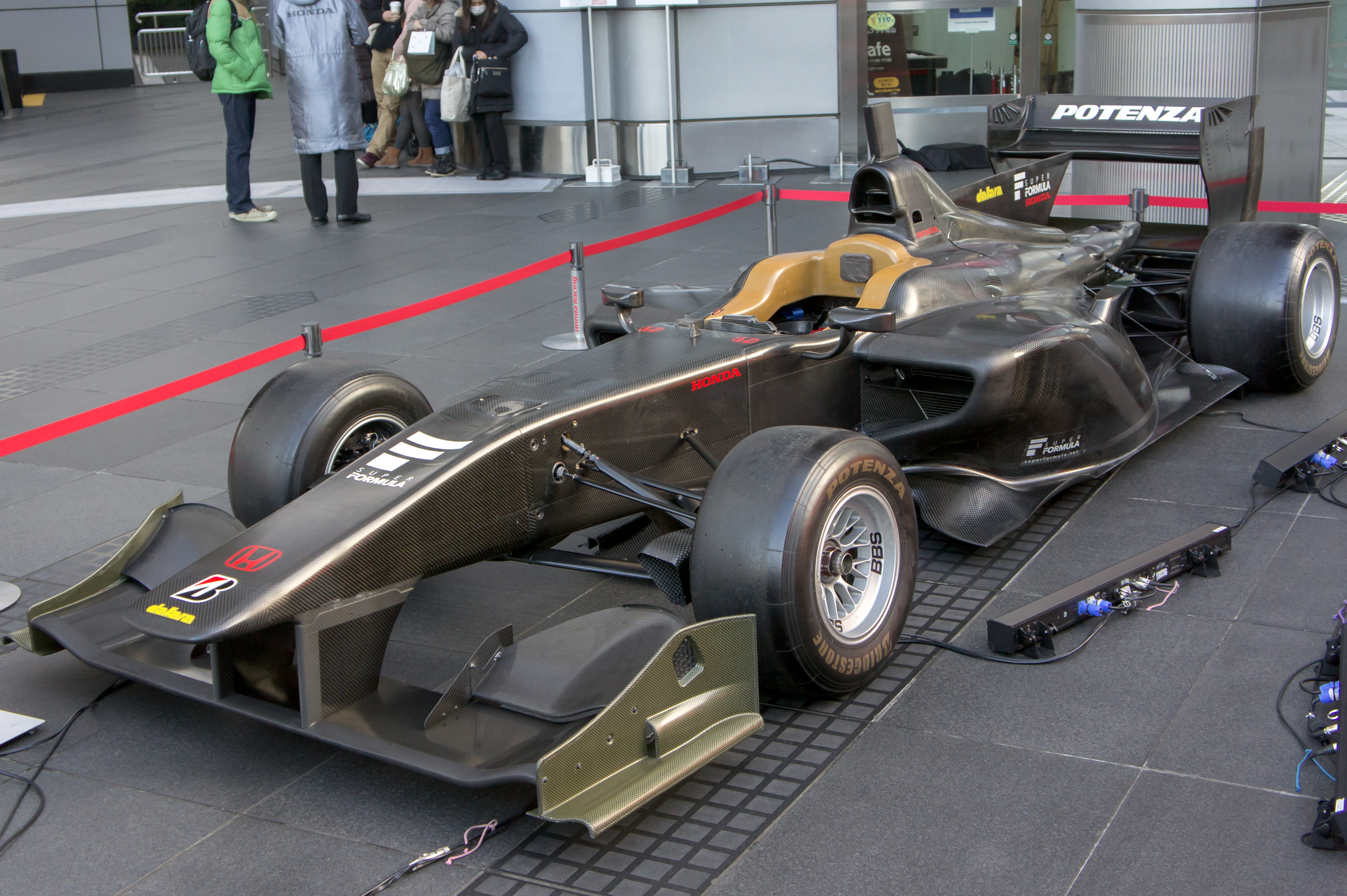 Dallara SF14 test car